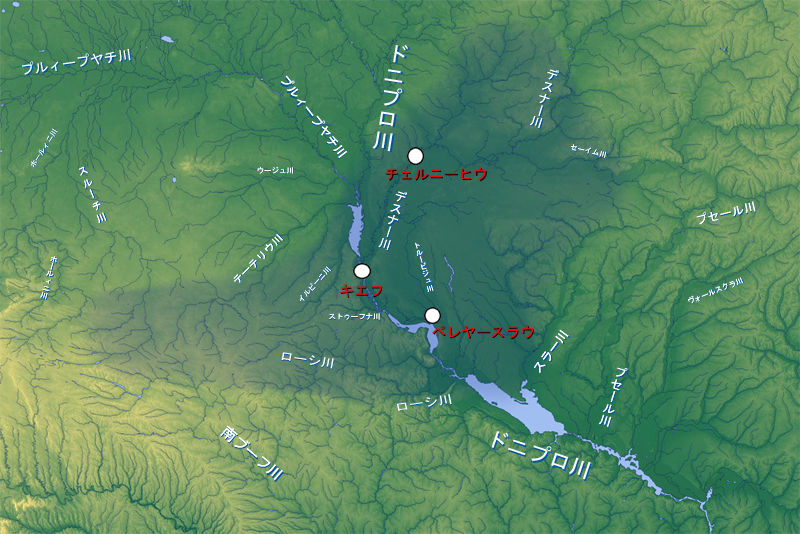 Rus by Nasonov